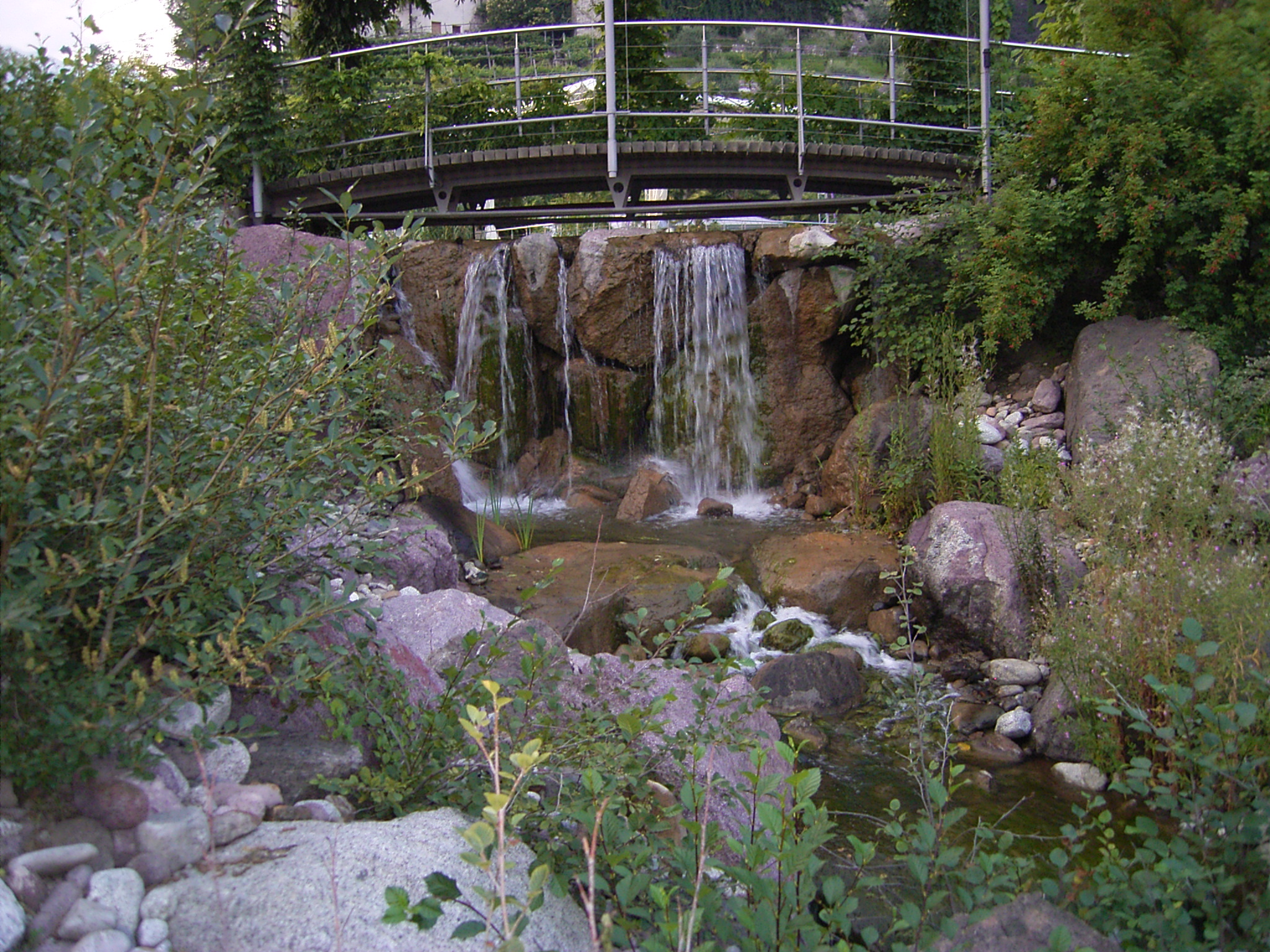 Photo of a waterfall in botanical garden Meran in South Tyrol.